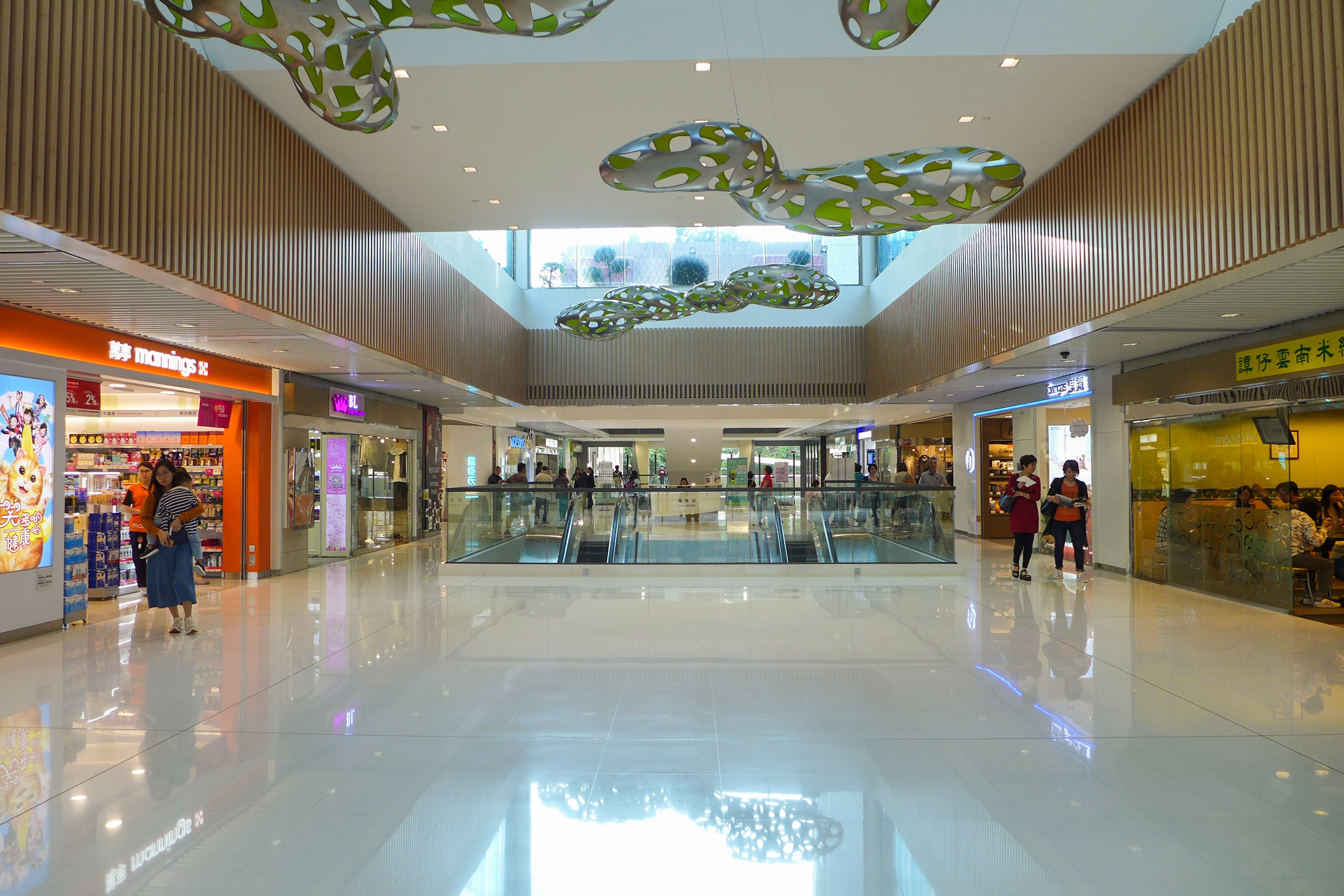 Shatin Centre Arcade Void